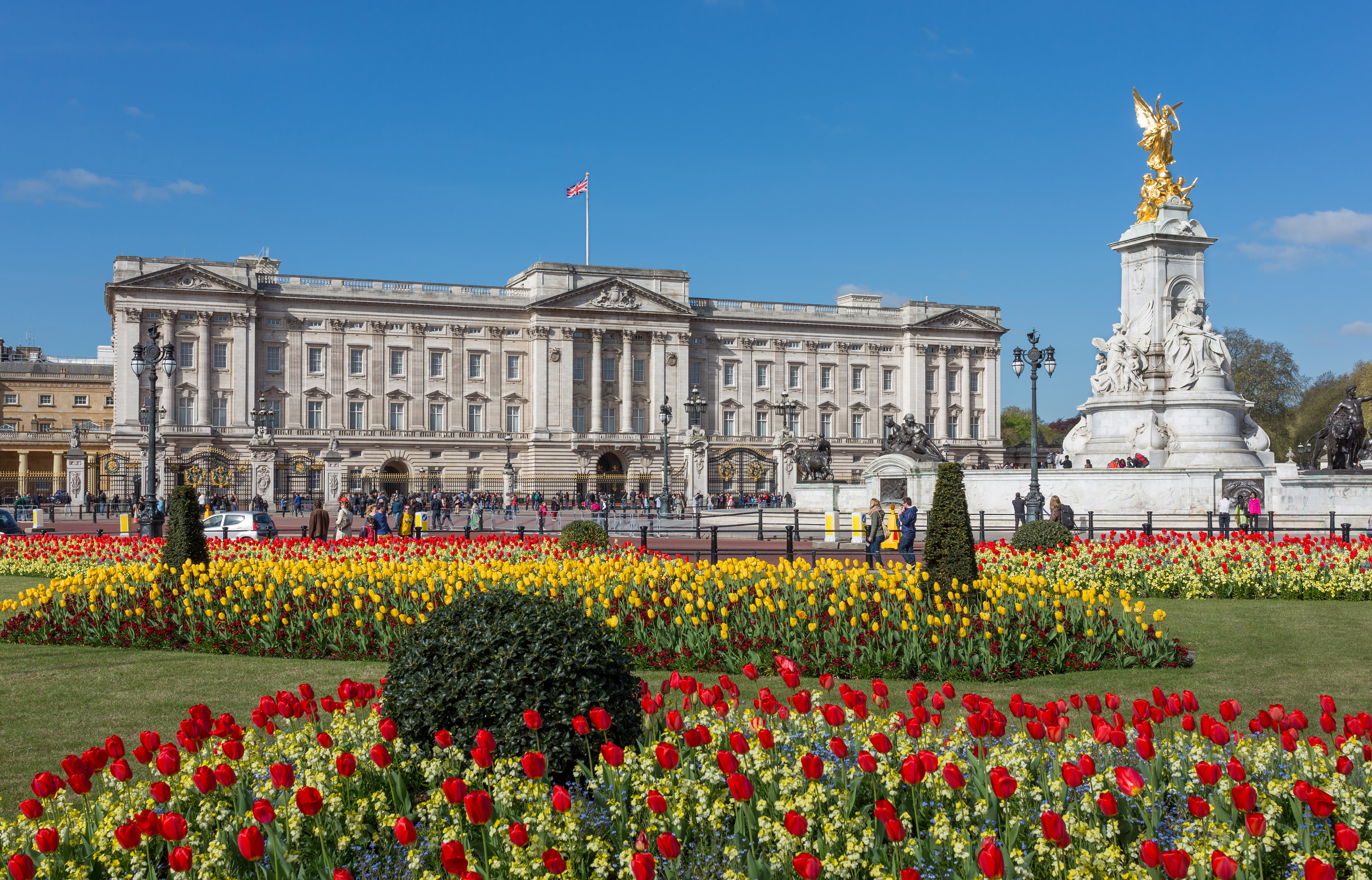 The view of the eastern façade of Buckingham Palace and the Victoria Memorial, seen from the gardens.